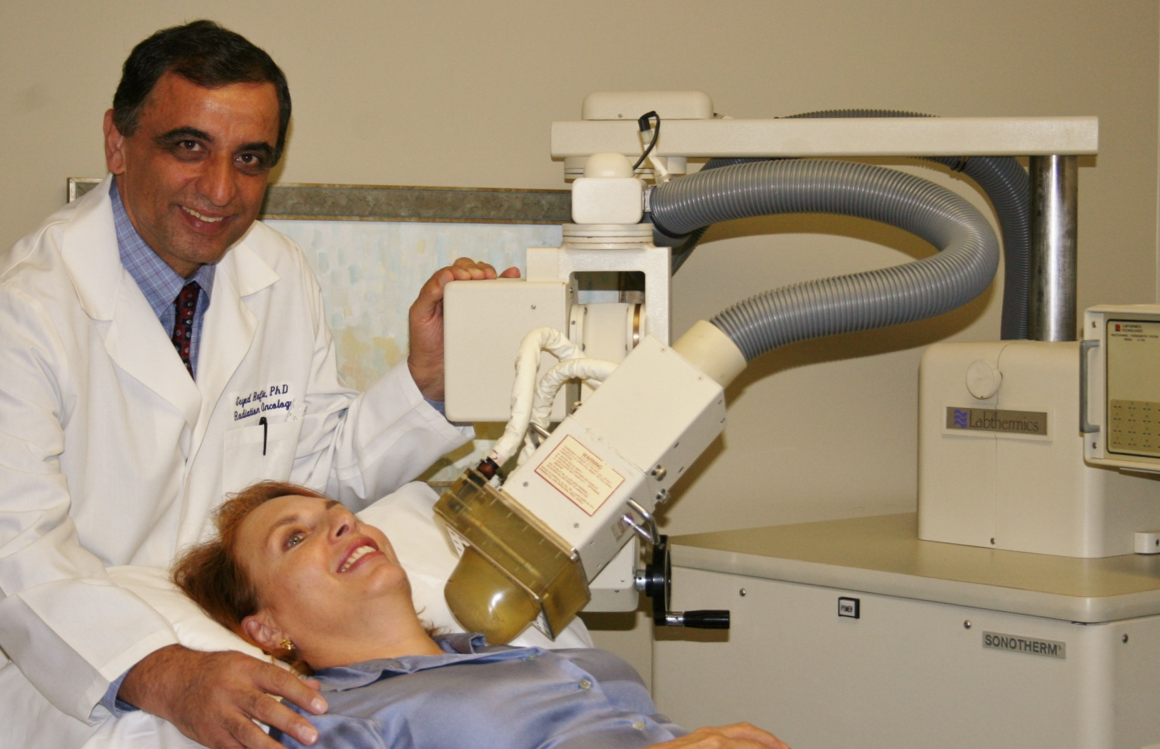 External, localized hyperthermia treatments have been proven to improve treatment outcomes in cancer patients by making radiation and/or chemotherapy more effective. This device uses ultrasound technology to create heat at superficial and deep tumor sites.